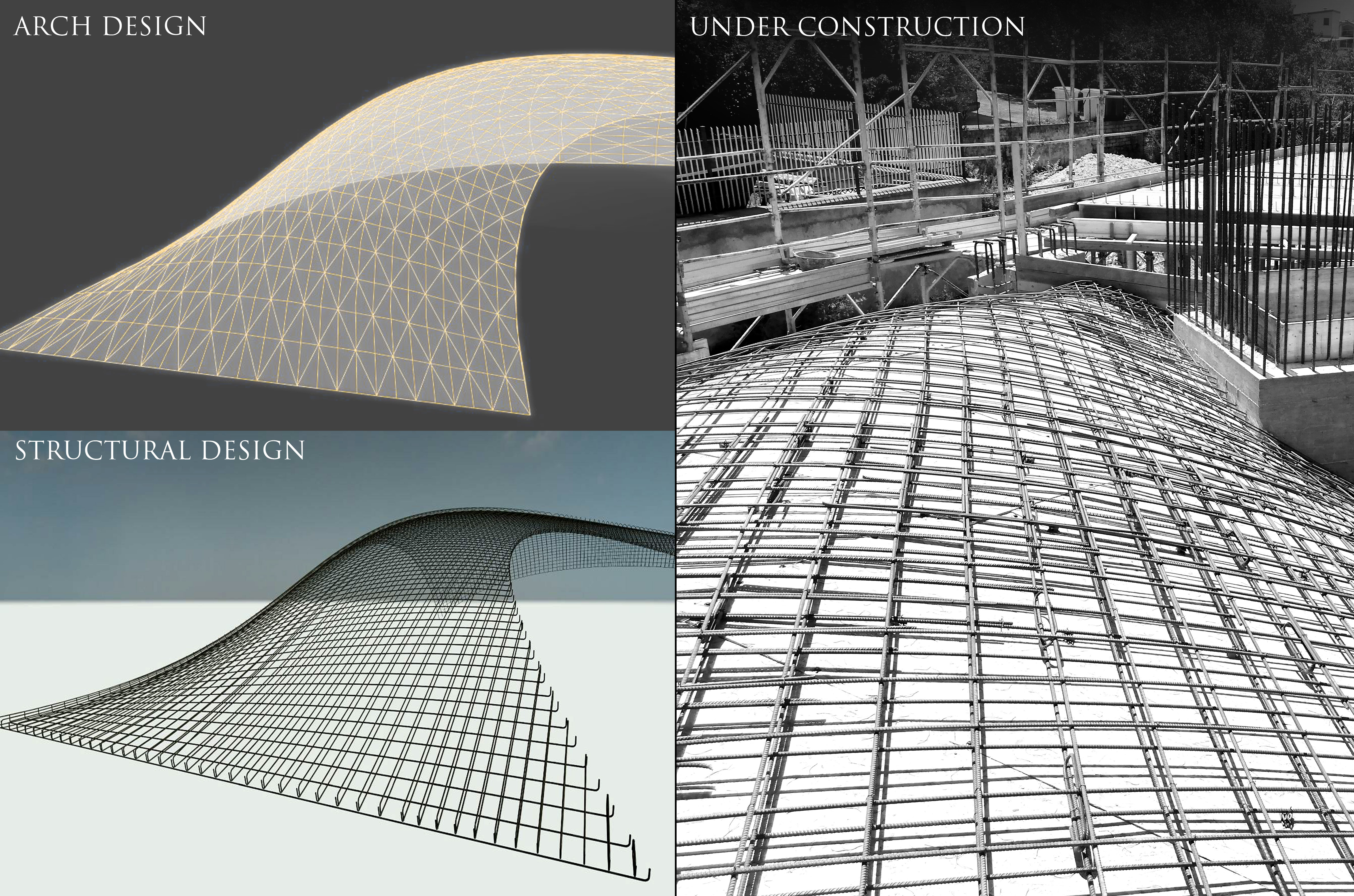 Reinforced concrete freeform constructive process in summary